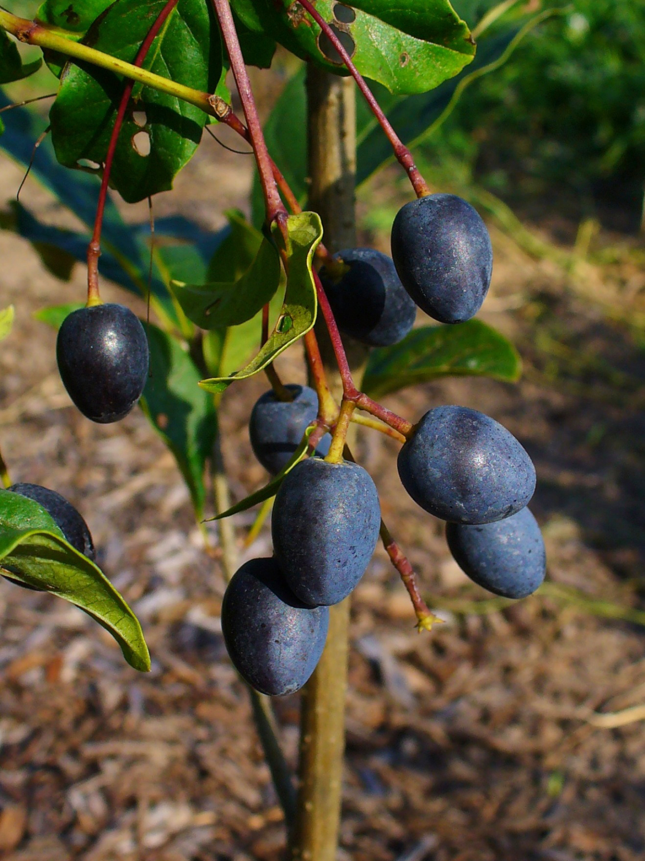 Chionanthus virginicus, Oleaceae, White Fringetree, fruits. The fresh bark of the roots is used in homeopathy as remedy: Chionanthus virginicus (Chion.)